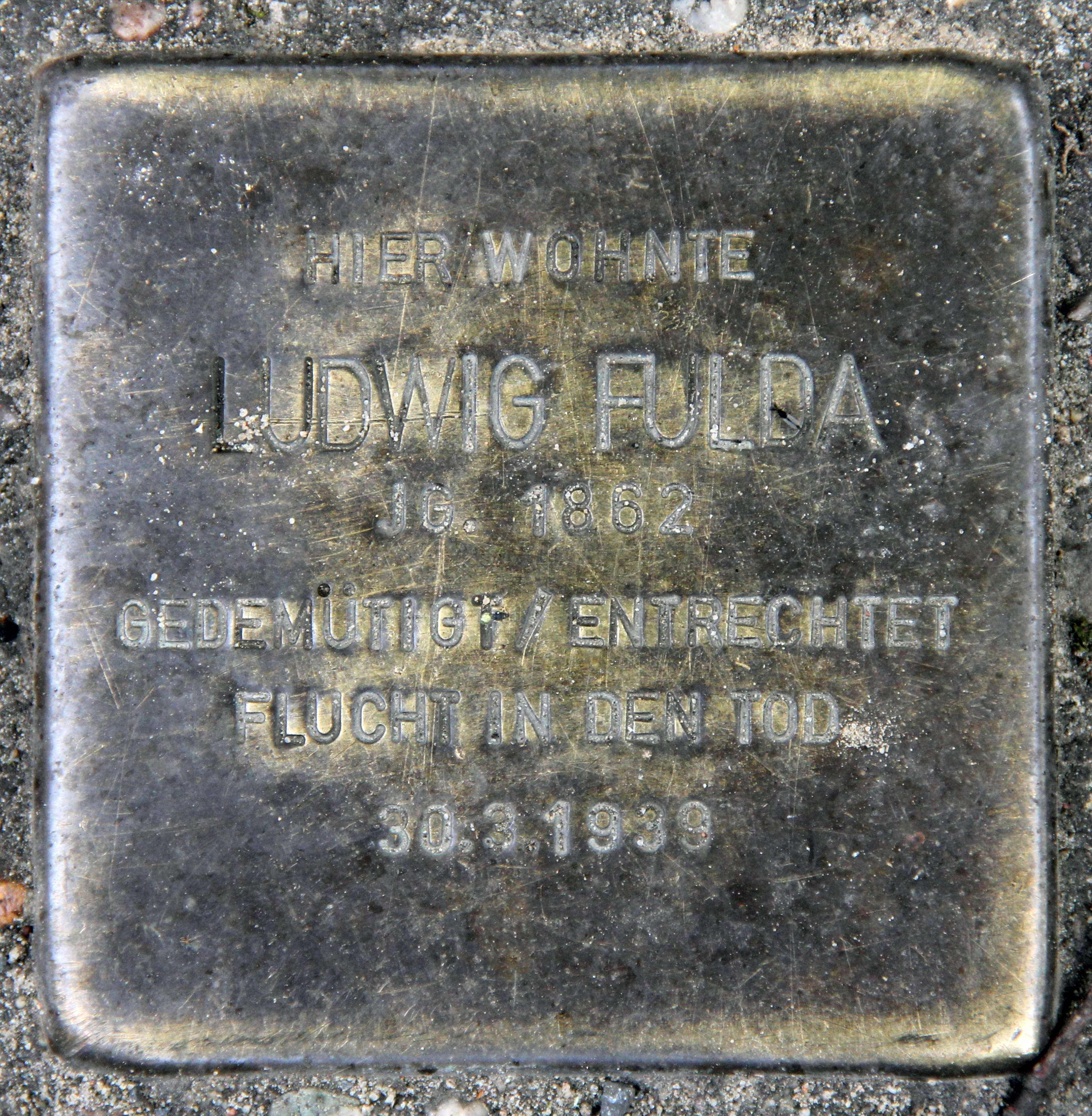 "Stolperstein" (stumbling block), Ludwig Fulda, Miquelstraße 86, Berlin-Dahlem, Germany